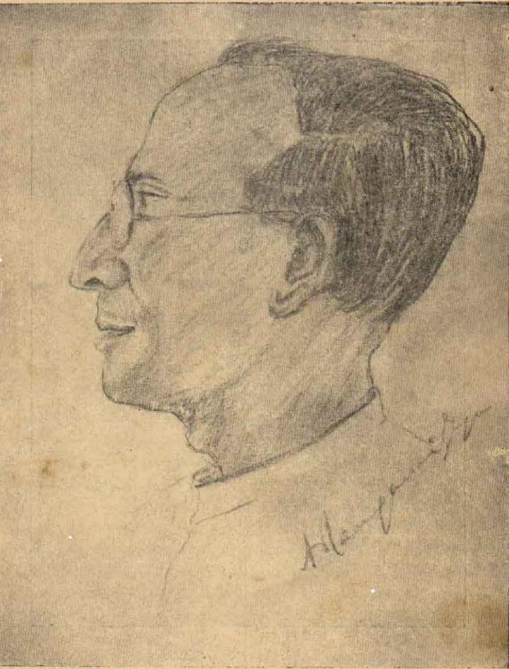 This is the pencil sketch of A.Rangaswamy Iyengar with his autograph drawn by unknown artist.